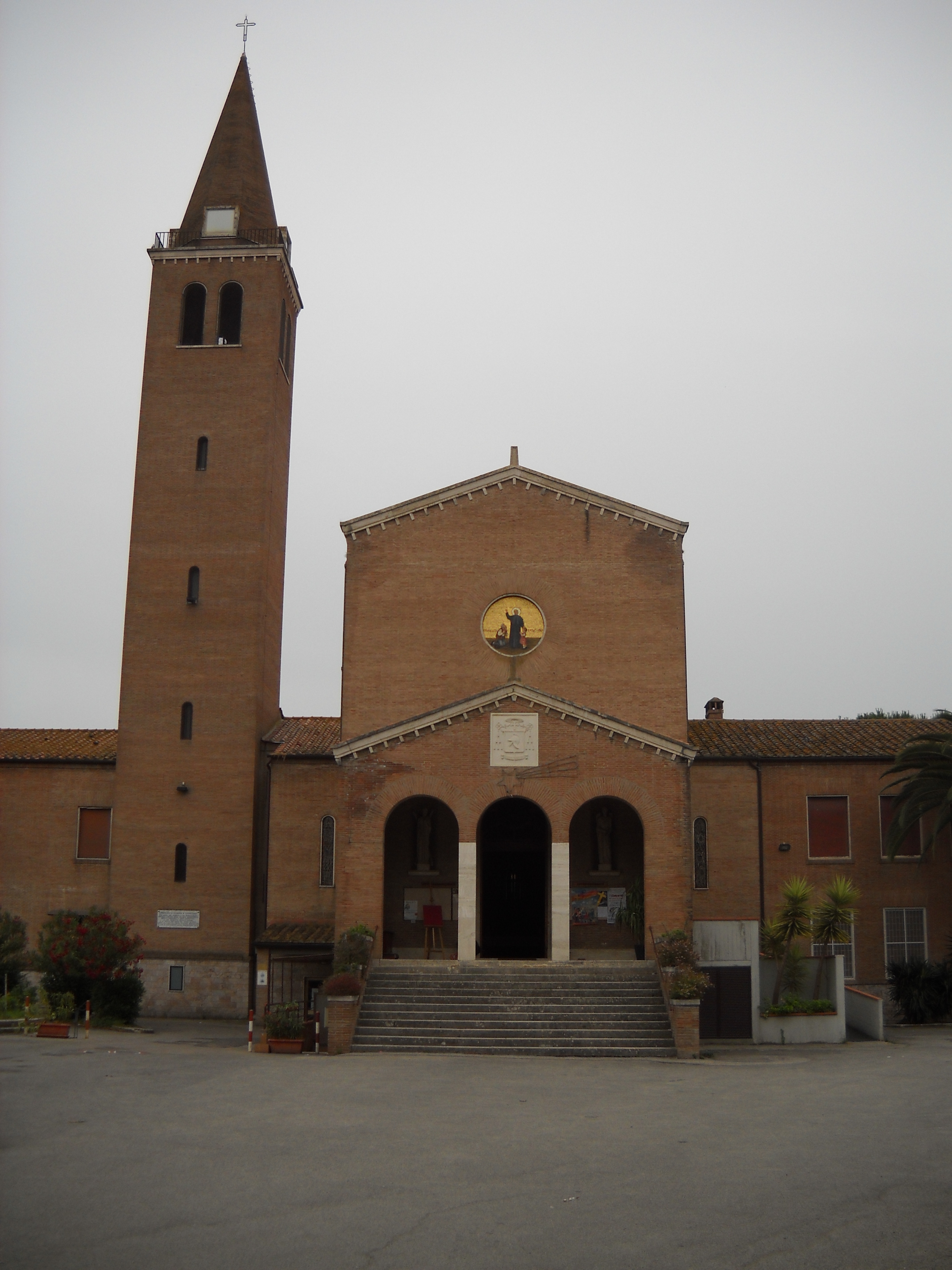 Ernesto Ganelli, church of San Giuseppe Benedetto Cottolengo in Grosseto, Tuscany